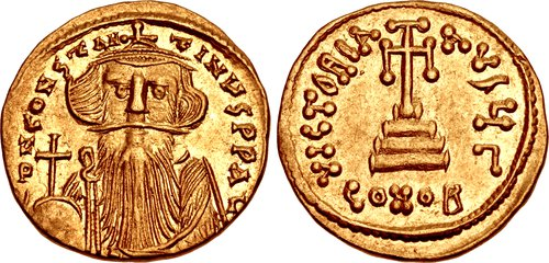 Constans II. AV Solidus (19mm, 4.39 g, 6h). Constantinople mint, 3rd officina. Crowned and draped facing bust, holding globus cruciger / Cross potent set on three steps; Γ//CONOB.